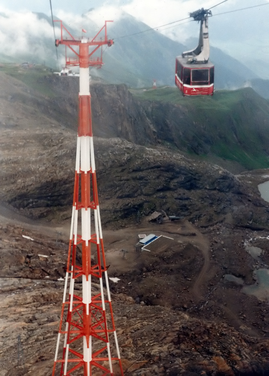 The tallest aerial tramway support pillar in the world, on the Gletscherbahn in Kaprun, Austria. The pillar is 113.6 metres (373 feet) high. Photographed by Adrian Pingstone in July 1998 and placed in the public domain.